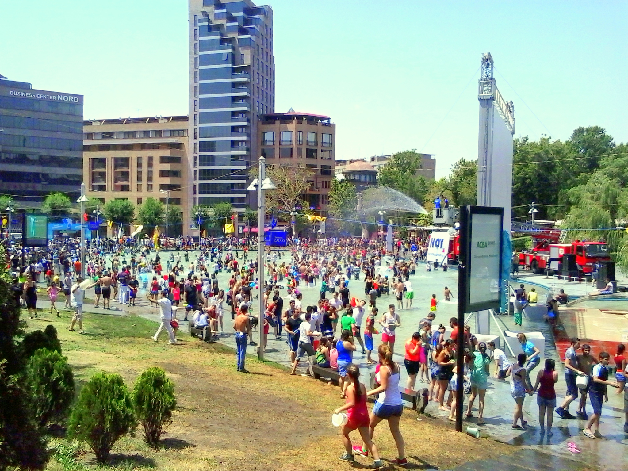 Vartavar 2014 Yerevan